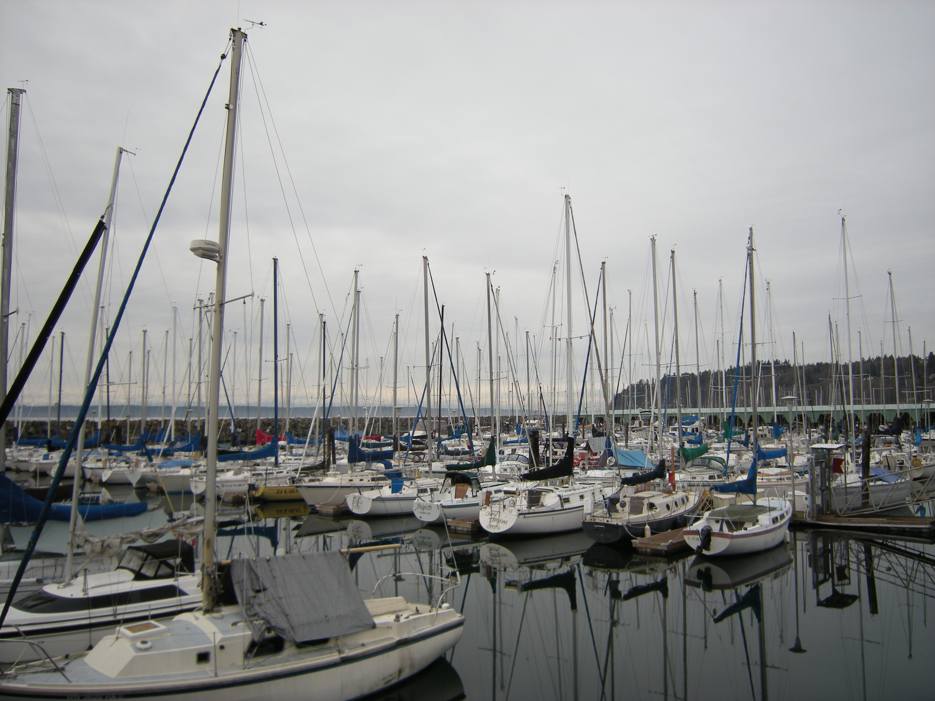 Sailboats at South Marina, Des Moines, Washington.